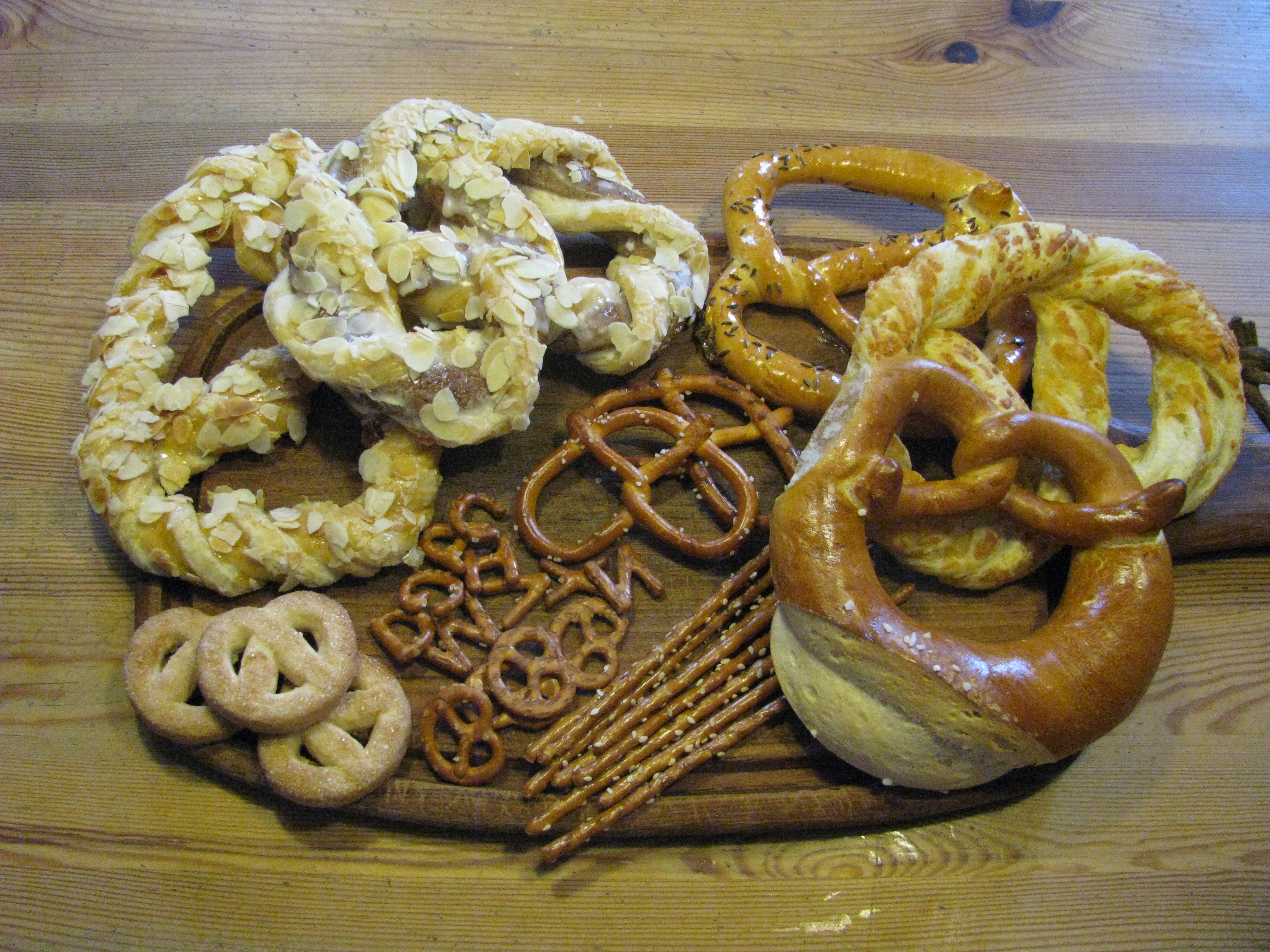 Selection of sweet and savoury pretzels (Germany)